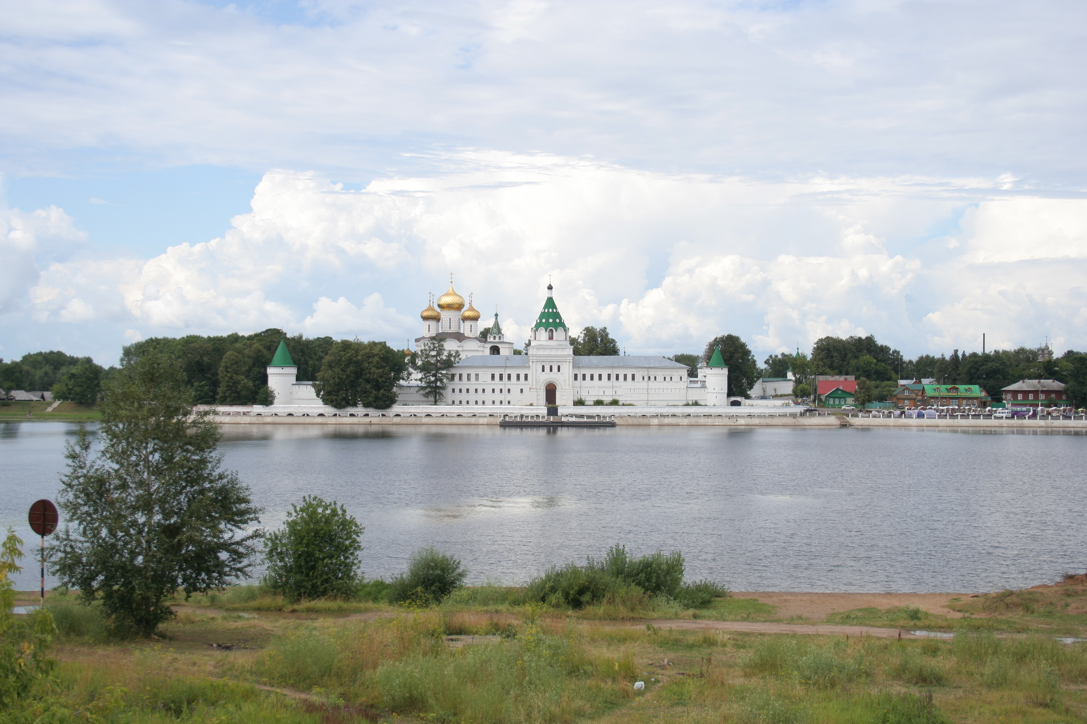 View on the Ipatiev Monastery in Kostroma, Russia